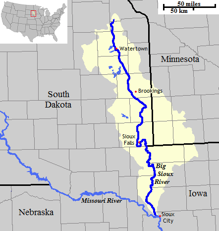 Map of the course and drainage basin of the Big Sioux River in the United States.